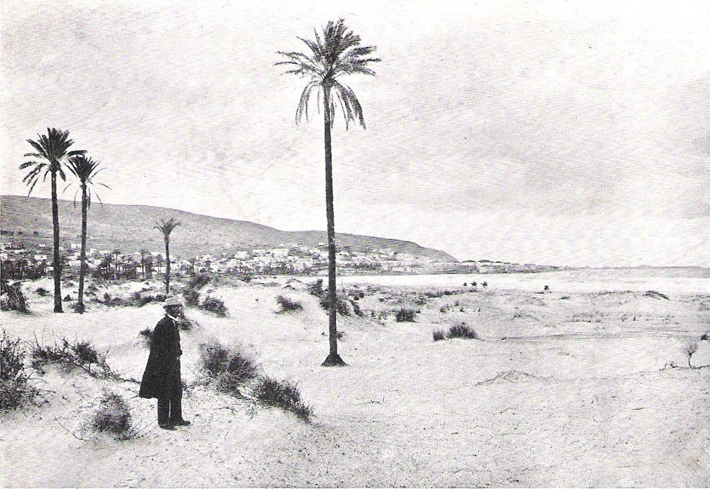 Haifa and shore dunes with palms in the Zvulun Valley, with Mount Carmel — in the Ottoman Palestine era. The picture are from old book (that was published in 1899), some of the picture are fro 1899, some are even older: This work is in the public domain in its country of origin and other countries and areas where the copyright term is the author's life plus 70 years or less. You must also include a United States public domain tag to indicate why this work is in the public domain in the United States. Note that a few countries have copyright terms longer than 70 years: Mexico has 100 years, Jamaica has 95 years, Colombia has 80 years, and Guatemala and Samoa have 75 years. This image may not be in the public domain in these countries, which moreover do not implement the rule of the shorter term. Côte d'Ivoire has a general copyright term of 99 years and Honduras has 75 years, but they do implement the rule of the shorter term. Copyright may extend on works created by French who died for France in World War II (more information), Russians who served in the Eastern Front of World War II (known as the Great Patriotic War in Russia) and posthumously rehabilitated victims of Soviet repressions (more information). This file has been identified as being free of known restrictions under copyright law, including all related and neighboring rights. For the scan and the the crop: The name of the book (in hebrew) is: "מראה ארץ ישראל והמושבות" by (in hebrew): "ישעיהו ראפאלוביטש ושותפו משה אליהו זאכס" Haifa and Mount Carmel